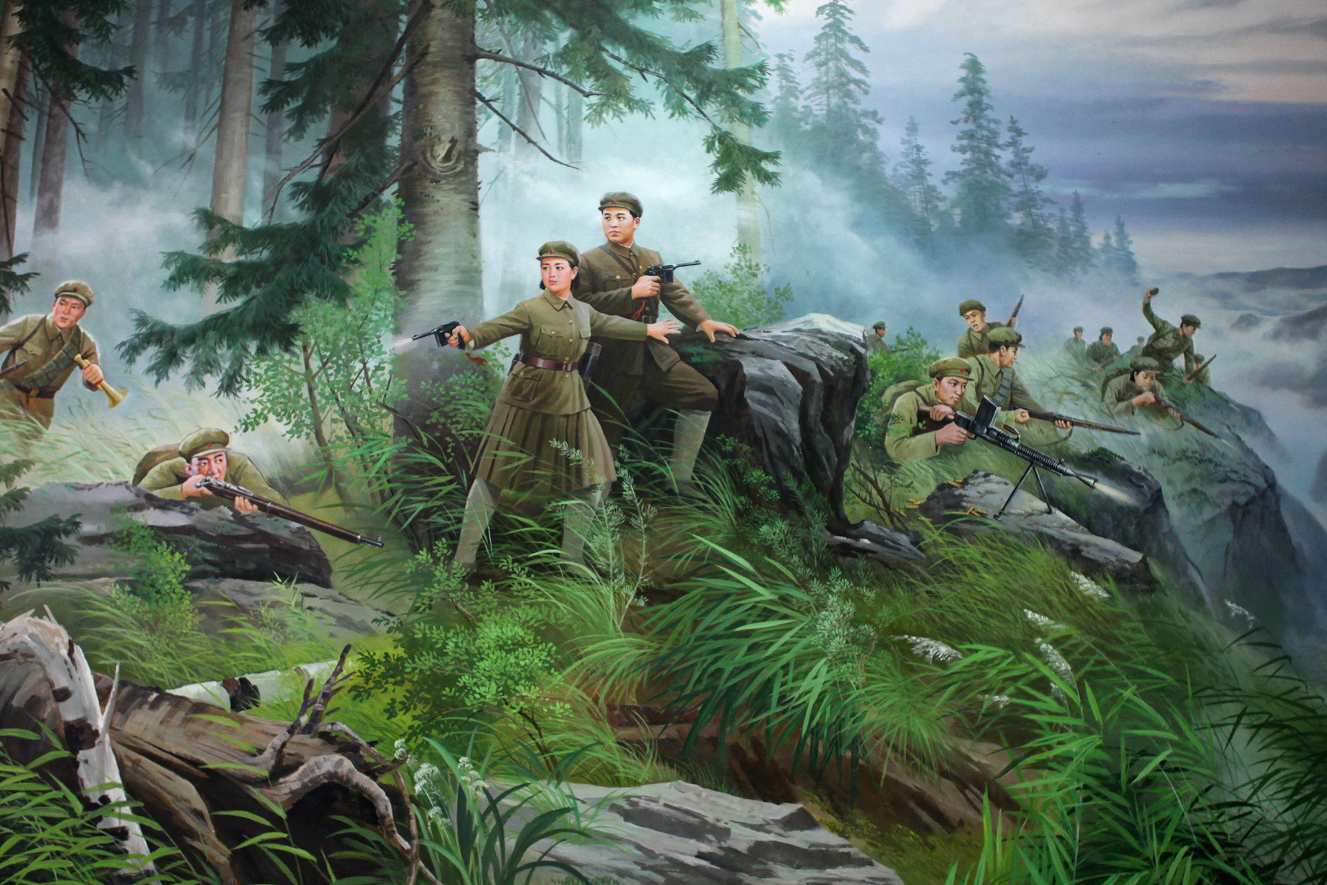 Great Mother Kim Jong Suk safeguarding Great Leader Comrade Kim Il Sung at the risk of her life.